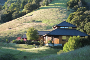 The Upper Retreat Hall where residential retreats and special events take place.